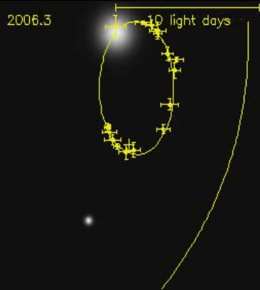 The S2 (star) orbiting the center of the Milky Way Galaxy. This is a screenshot from a video created by the European Southern Observatory, and features the last moment of the video where S2 has fully completed its clockwise orbit.